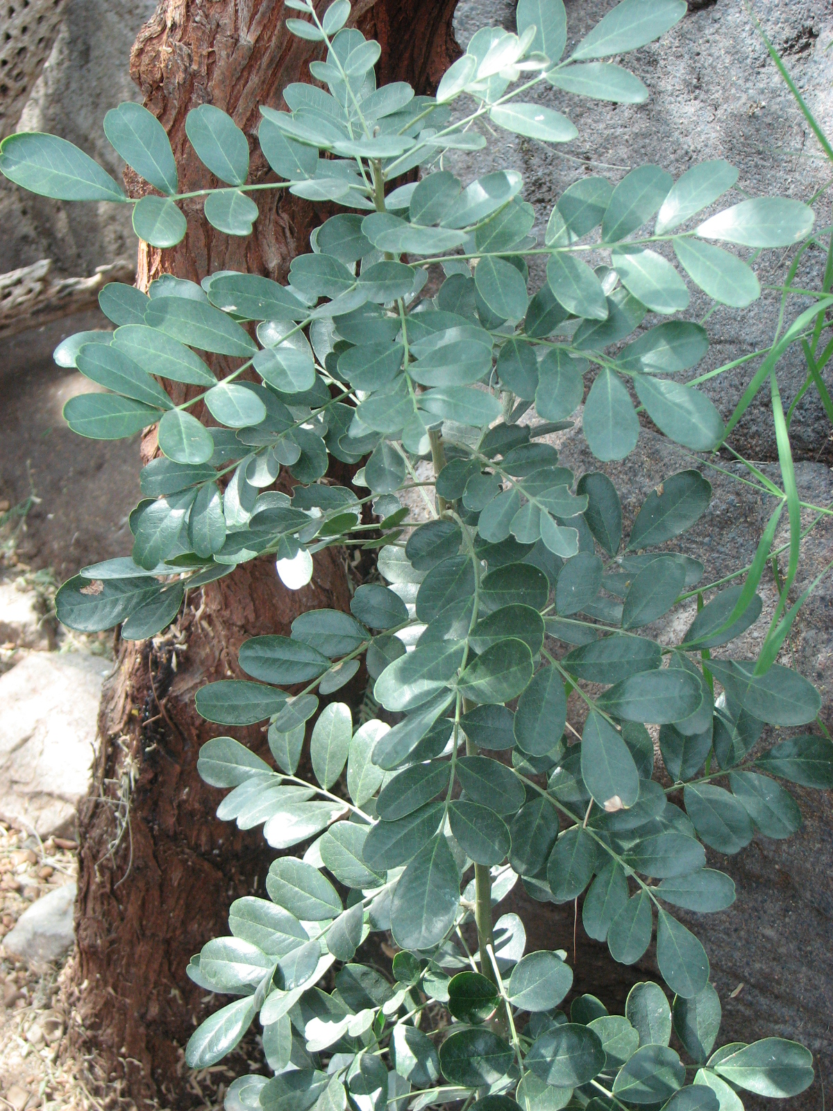 Olneya tesota at North Carolina Zoo